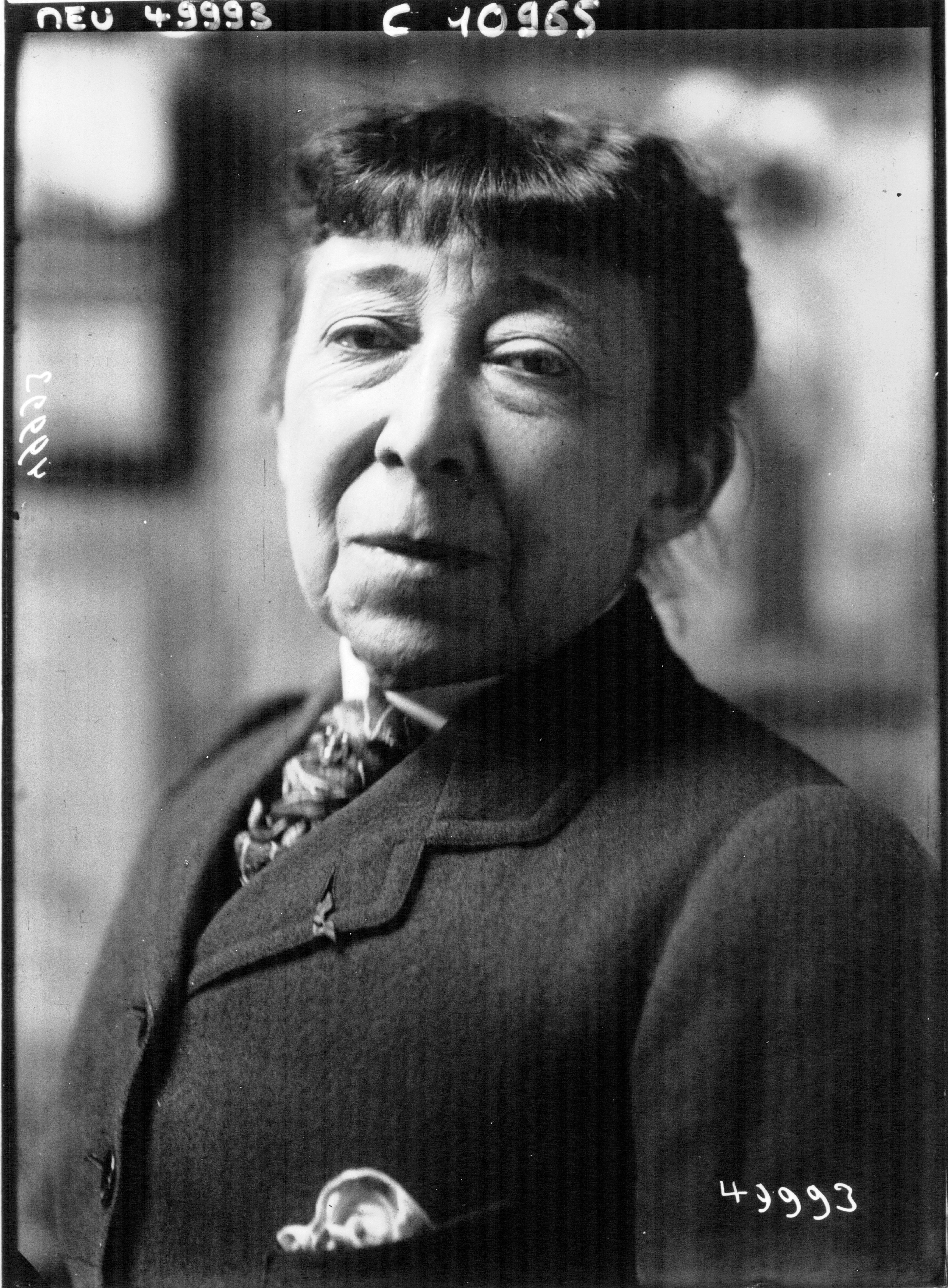 French painter Louise Abbéma (1853-1927).